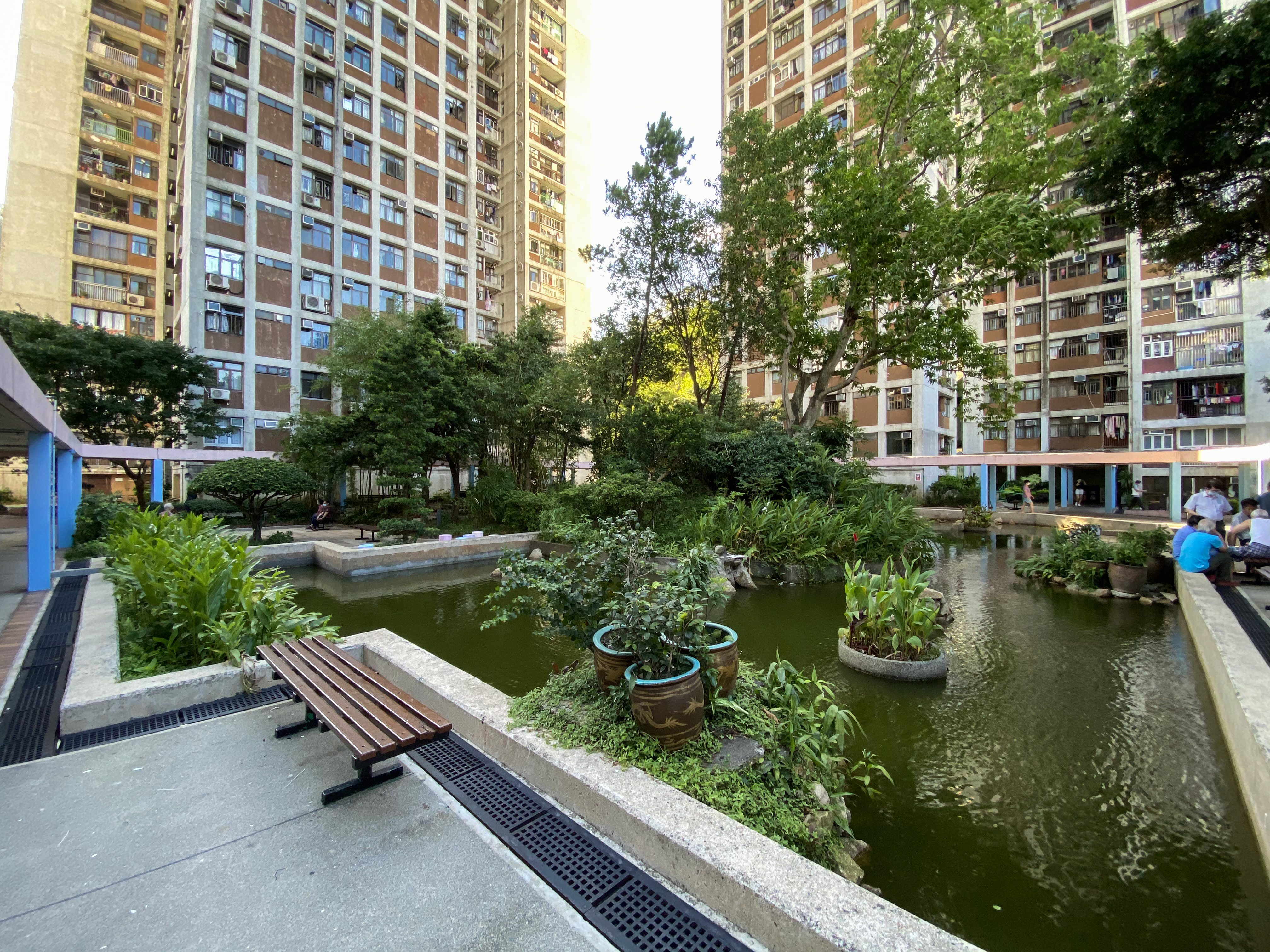 Sui Wo Court Phase 1 Pond